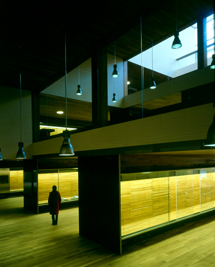 Interior view of the Fine Arts Museum of Castellón, Spain, by Mansilla+Tuñón